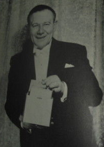 The magician Robert Harbin.